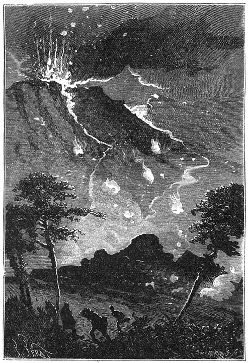 An illustration from Jules Verne's novel "The Mysterious Island" (1873-74) drawn by Jules Férat.